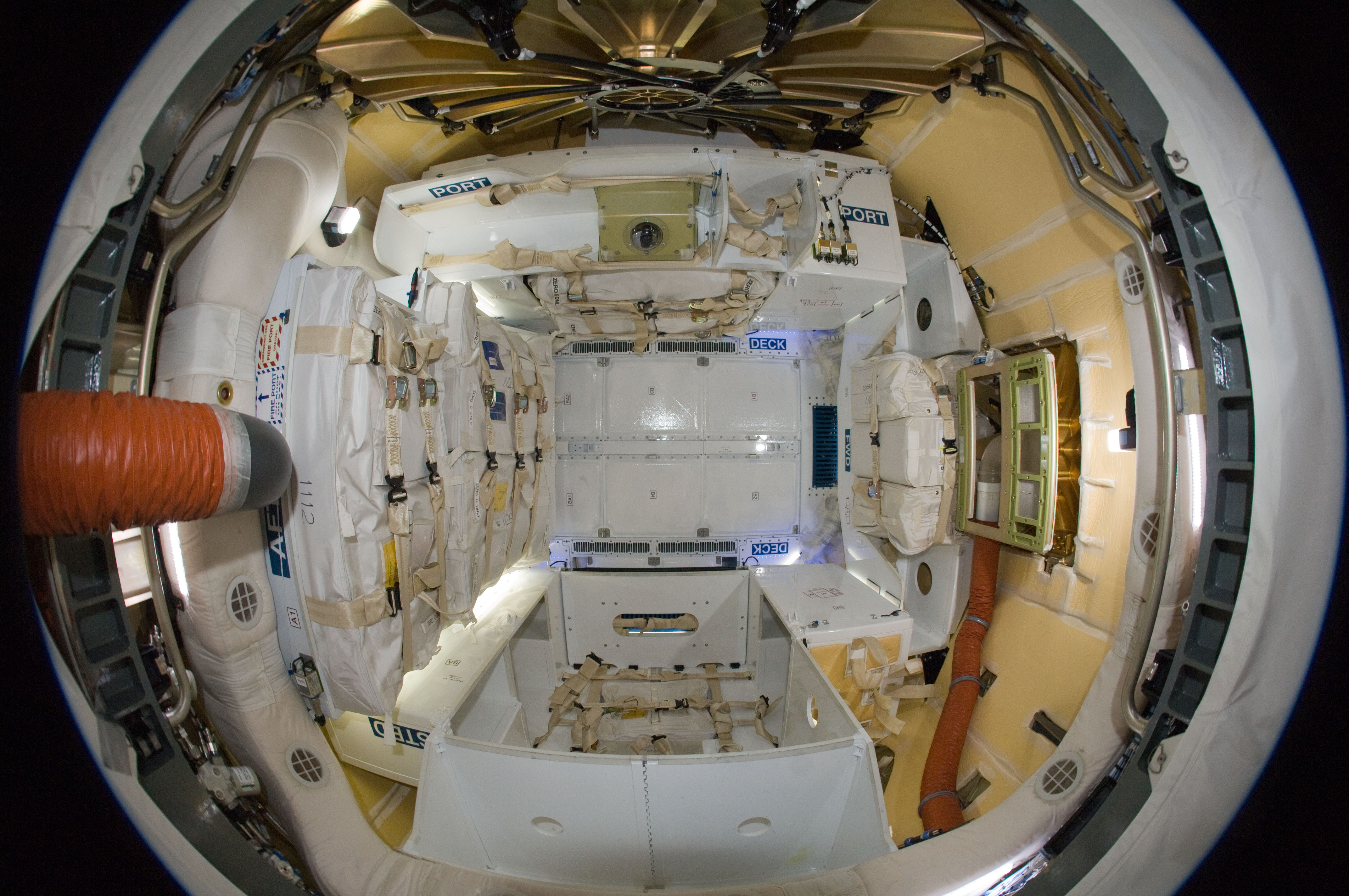 A look inside the Dragon cargo capsule after it was connected to the International Space Station